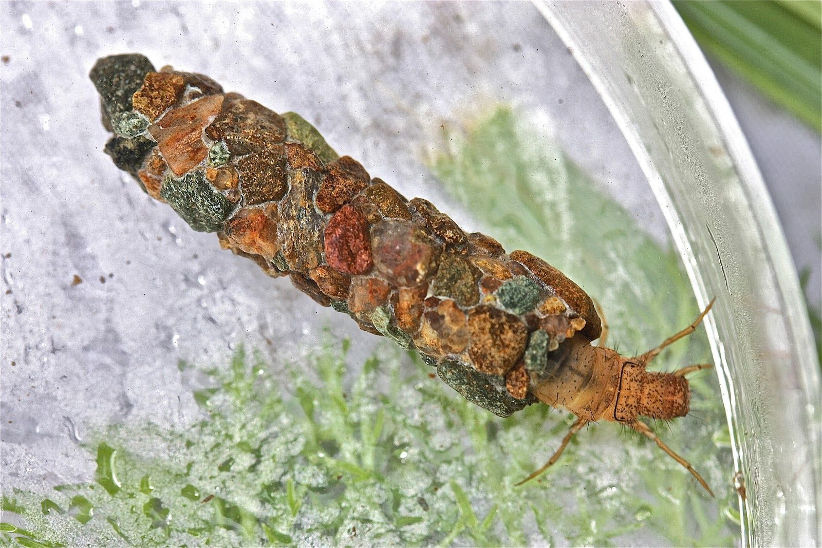 This is a photograph of a live caddisfly larva in the genus Pycnopsyche